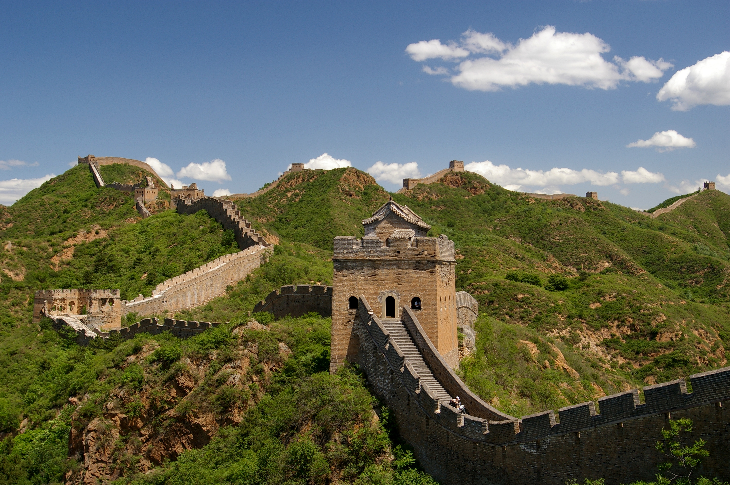 Great Wall of China near Jinshanling